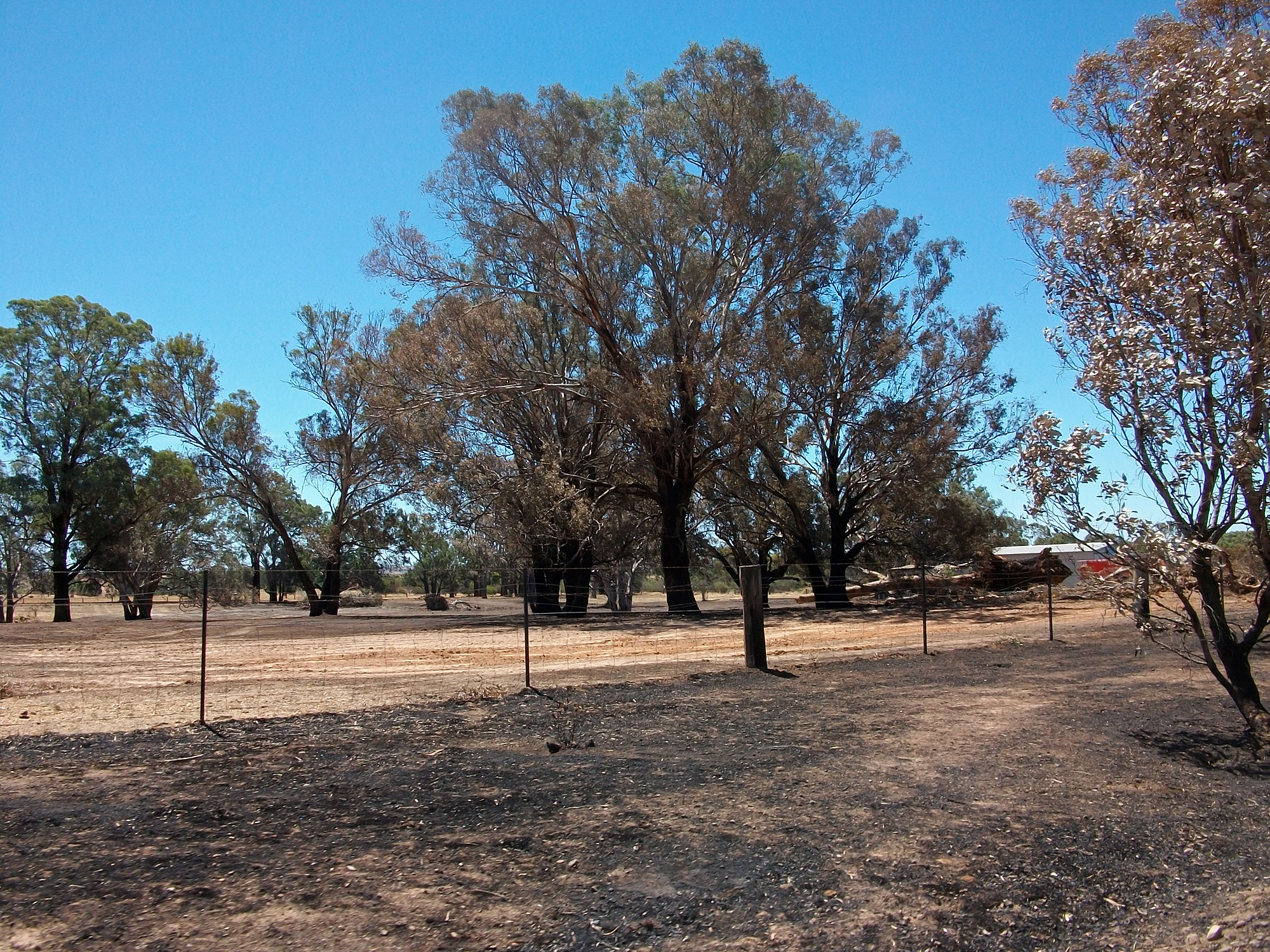 Aftermath of the Gregadoo bushfire south of Wagga Wagga, New South Wales.